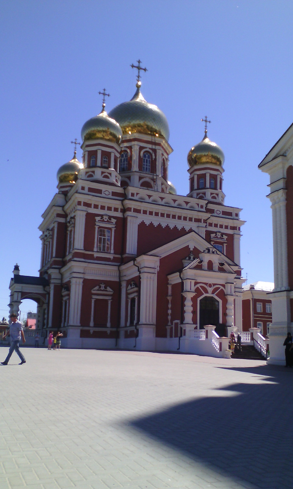 Church of the Intercession of the Holy Mother (Church of Pokrov), Gorky St., Saratov